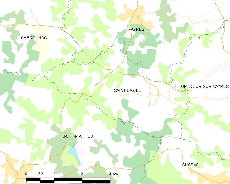 Map of French municipality Saint-Bazile